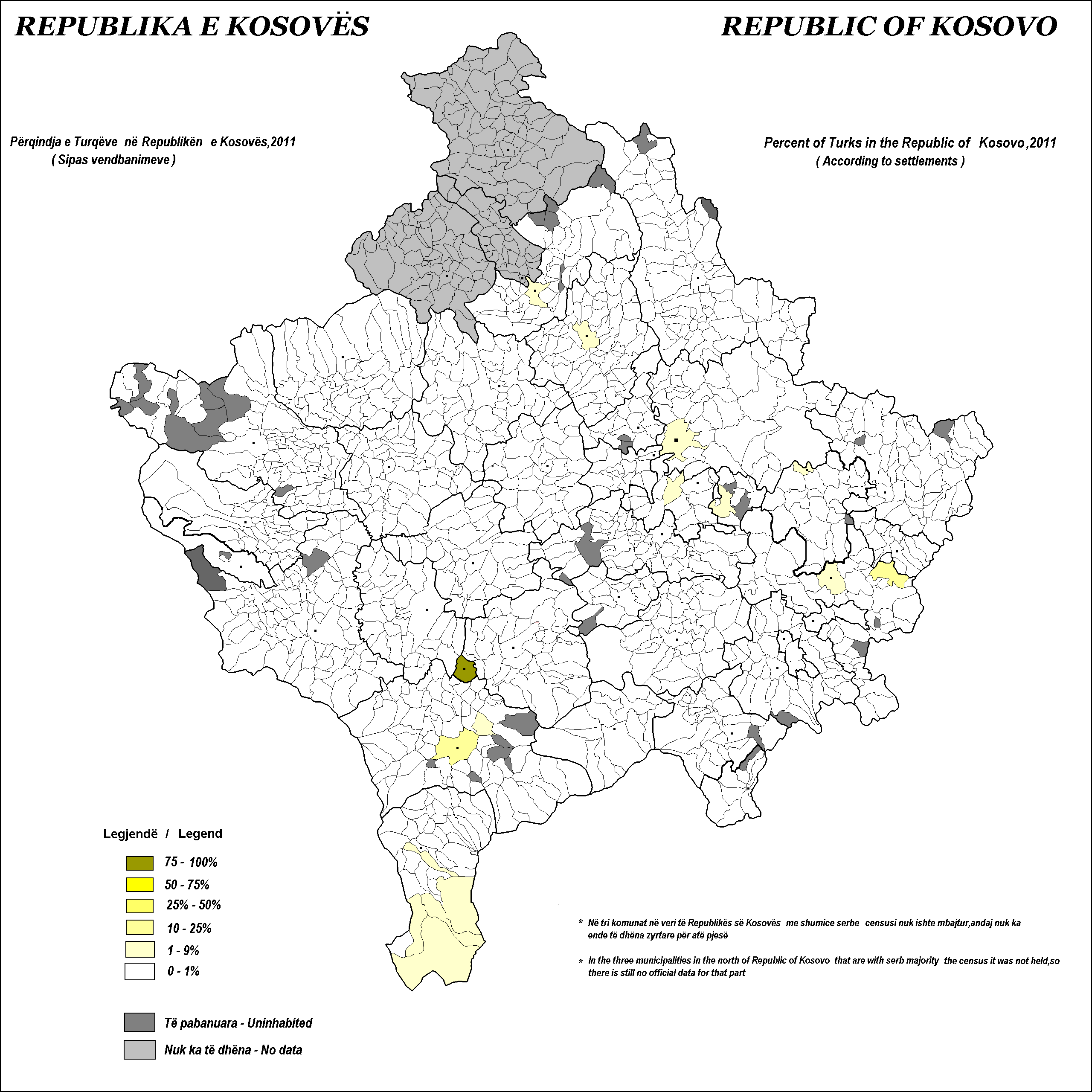 Turks in Kosovo according to settlements